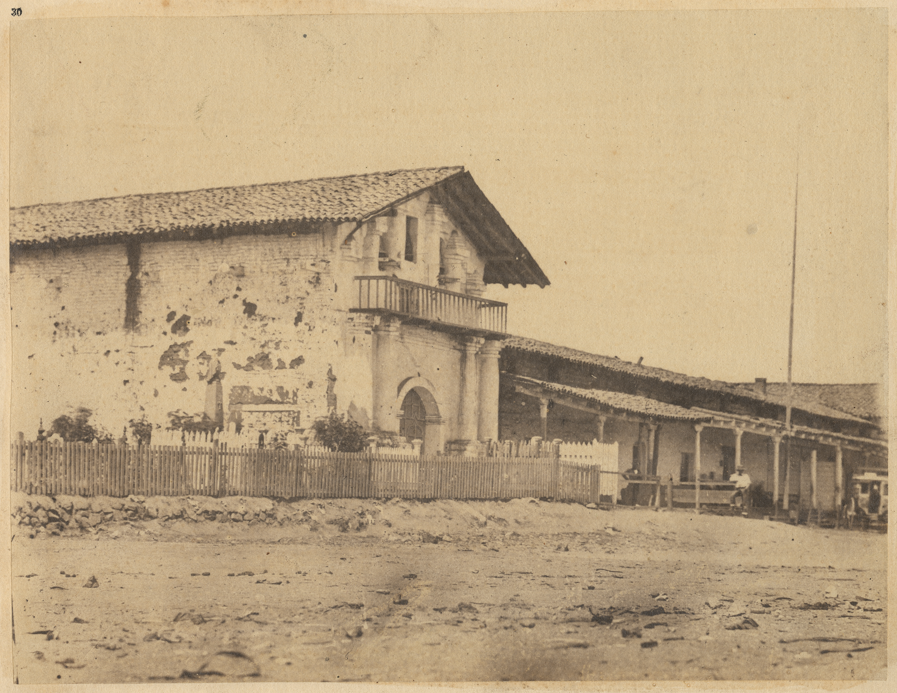 Title: Mission of Los Dolores. Creator: G. R. Fardon Date: 1856 Part Of: San Francisco album: photographs of the most beautiful views and public buildings of San Francisco Page Number: p. 30 Place: San Francisco, California Physical Description: 1 photographic print: salted paper; 16 x 21 cm. on 22 x 27 cm mount File: vault_folio_f869_s3f27_30_opt.jpg Rights: Please cite Southern Methodist University, Central University Libraries, DeGolyer Library when using this image file. A high-quality version of this file may be obtained for a fee by contacting . For more information and to view the image in high resolution, see: View U.S. West: Photographs, Manuscripts, and Imprints